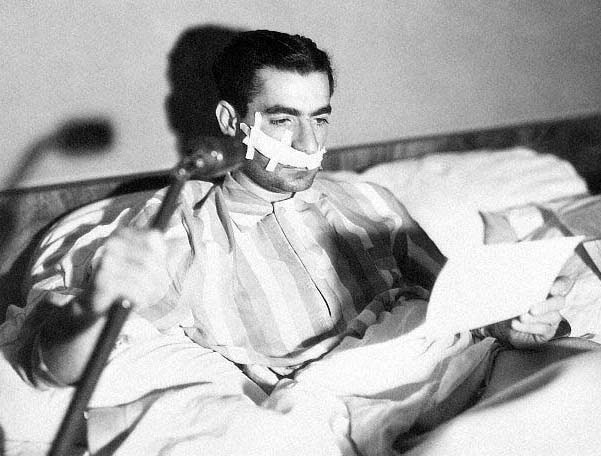 Mohamad Reza Shah Pahlavi in hospital recovering from an assassination attempt by a Tudeh Communist Party member